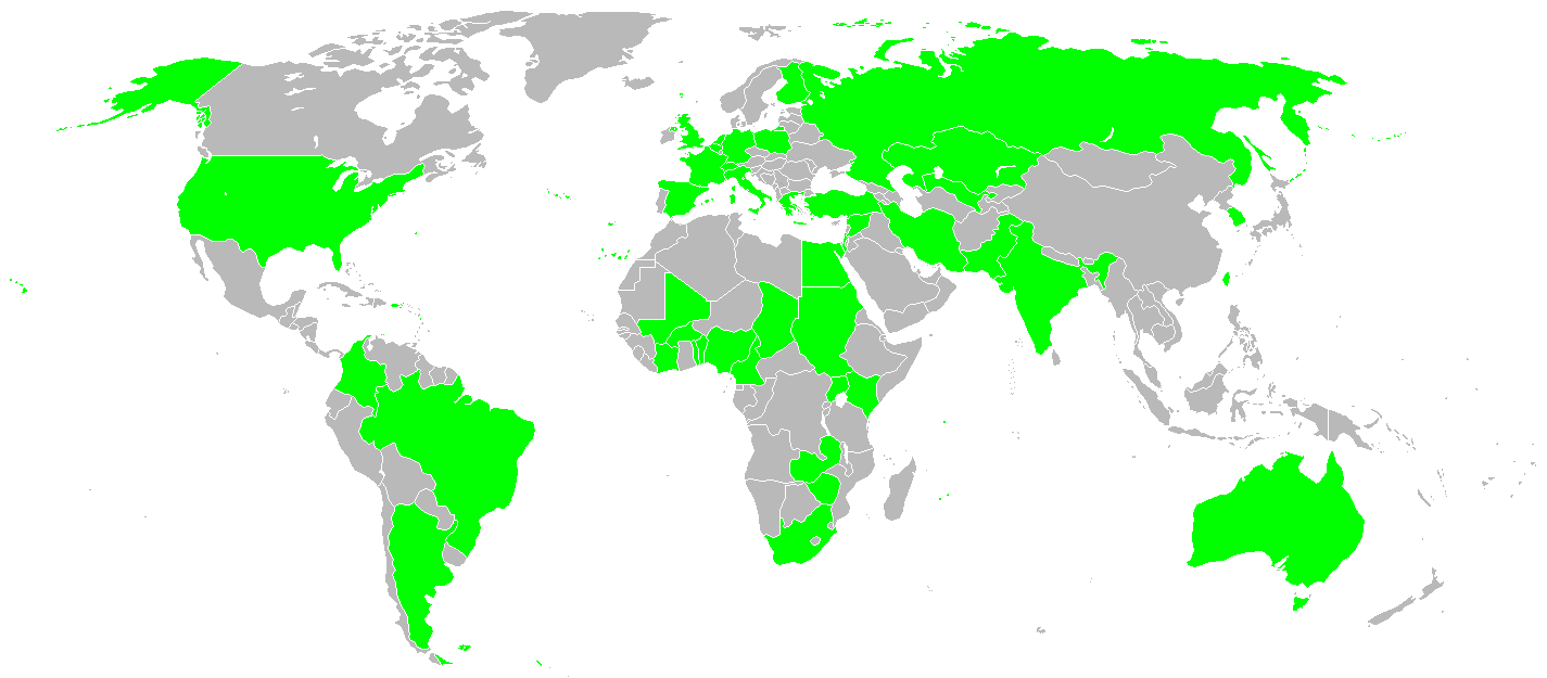 en map of members of the INTERNATIONAL COTTON ADVISORY COMMITTEE Derrived from a blank map of the world as of 2008, with country outlines, for making country locator maps. This map uses the Robinson projection centered on the Greenwich Prime Meridian and includes various microstates and island nations. All territories indicated in the UN listing of territories and regions are exhibited. The map was made by User:Vardion and adapted by User:E Pluribus Anthony for Wikipedia. Version with additional miscellaneous islands at Image:BlankMap-World-alt.png. Also see v2 and v4 for versions with micro-states, and v3 and v5 for versions with microstates + thin lines joining country areas. A version of this map is available with black lines for borders at Image:BlankMap-World-Borders.png. Other blank maps are available at Wikipedia:Blank maps and Category:Blank maps of the world If you plan on generating a new map for wikipedia by zooming in on this map and making some modifications, please consider a source map in SVG format instead, which will produce a higher quality image. These can be found in the SVG section at Wikipedia:Blank Maps Vector version . blablabla lalala